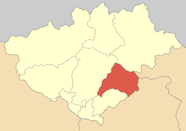 Locator map of Nikiforos municipality (Δήμος Νικηφόρου) in Drama prefecture (Νομός Δράμας) in Greece.